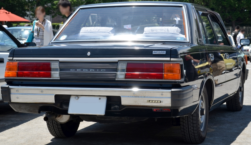 Nissan Cedric Standard